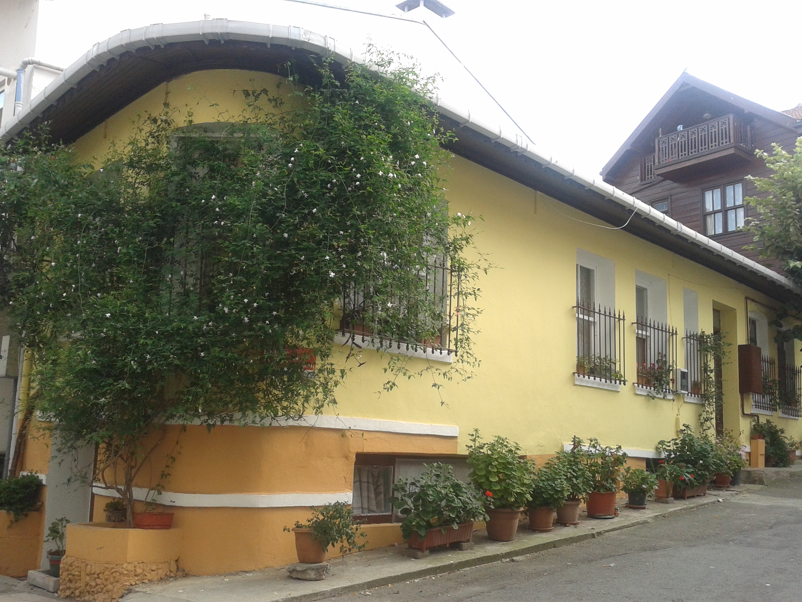 Classical house in island Burgazada